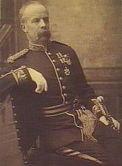 British Army officer Major Francis Downes (1834-1923) who was an important figure in the South Australian militia in the late 19th century and the fledgling Australian Military Forces at the turn of the 20th century